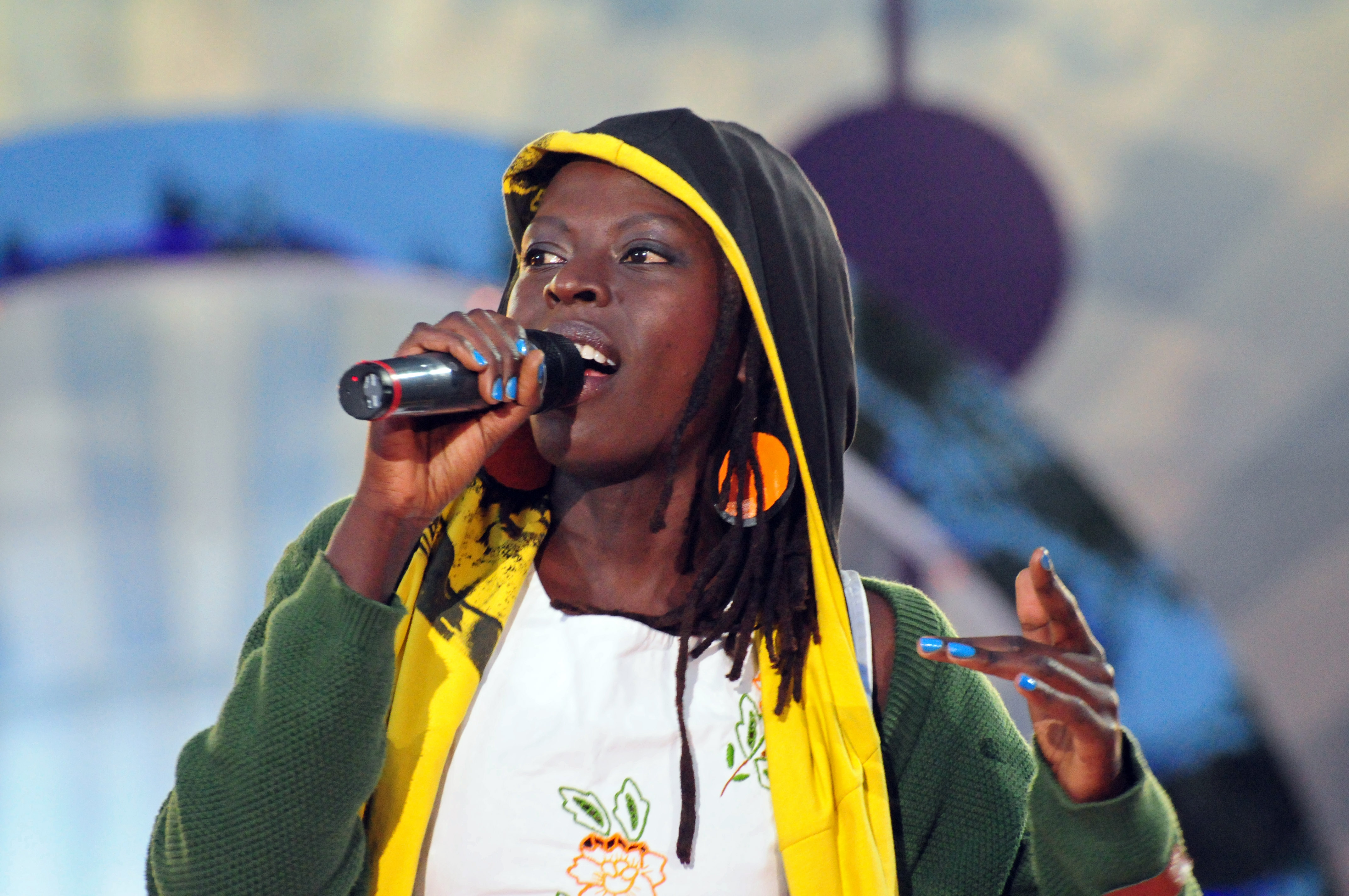 Jaqee at Sommarkrysset, Gröna Lund In Stockholm 2009